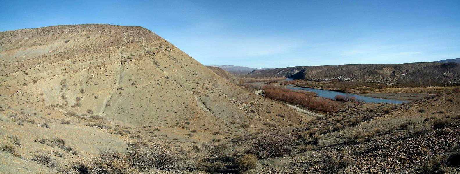 Agrio fm. (Lower Cretaceous) near Agrio river, at its type locality.